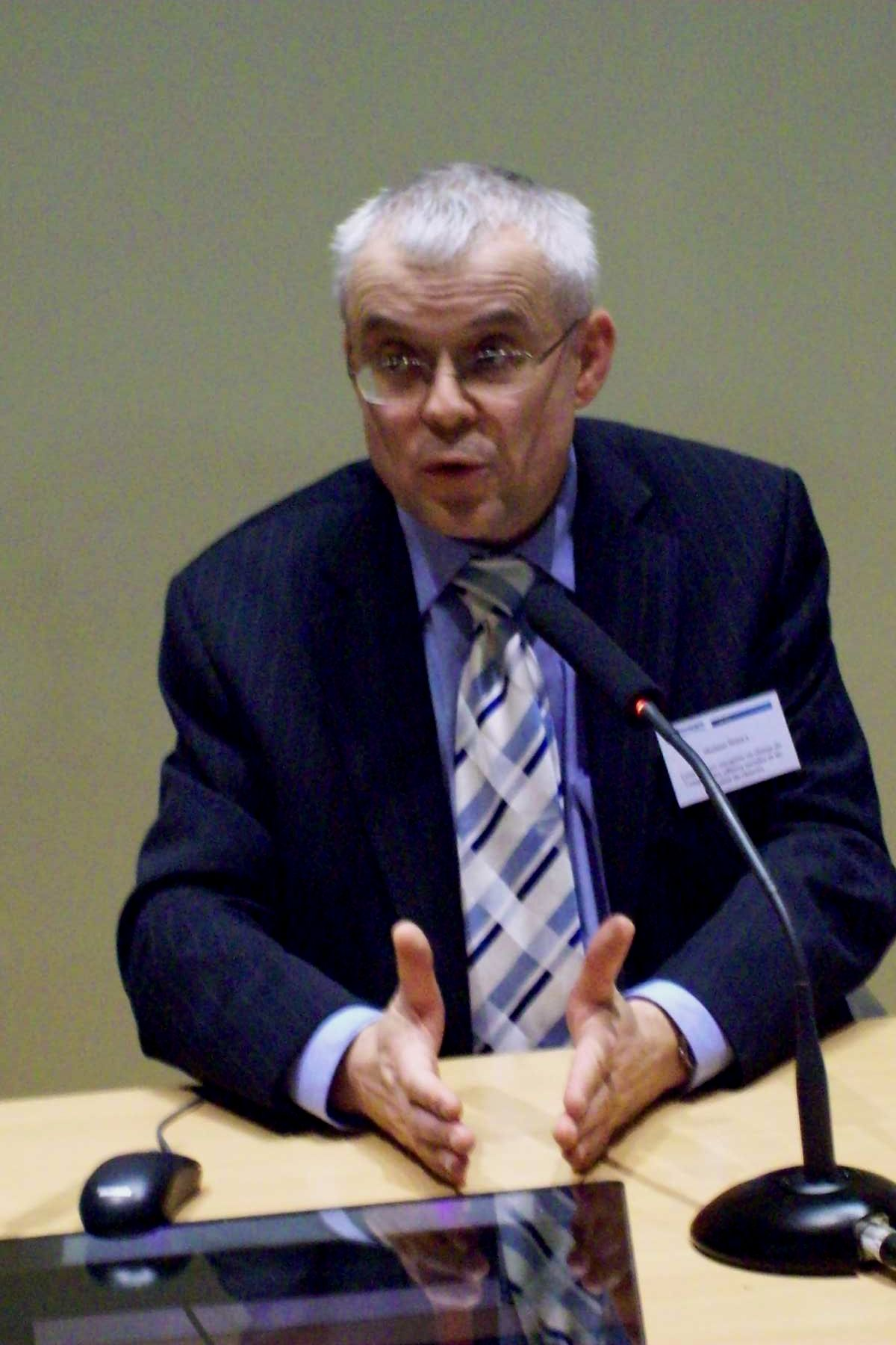 Czech eurocommissioner Vladimír Špidla in Sciences Po Paris (Paris Institute of Political Studies), campus of Dijon